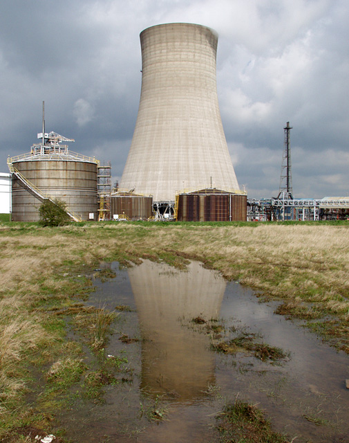 Hedon Haven, Salt End, East Riding of Yorkshire, England.A view dominated by one of the cooling towers at the BP Salt End chemical works.